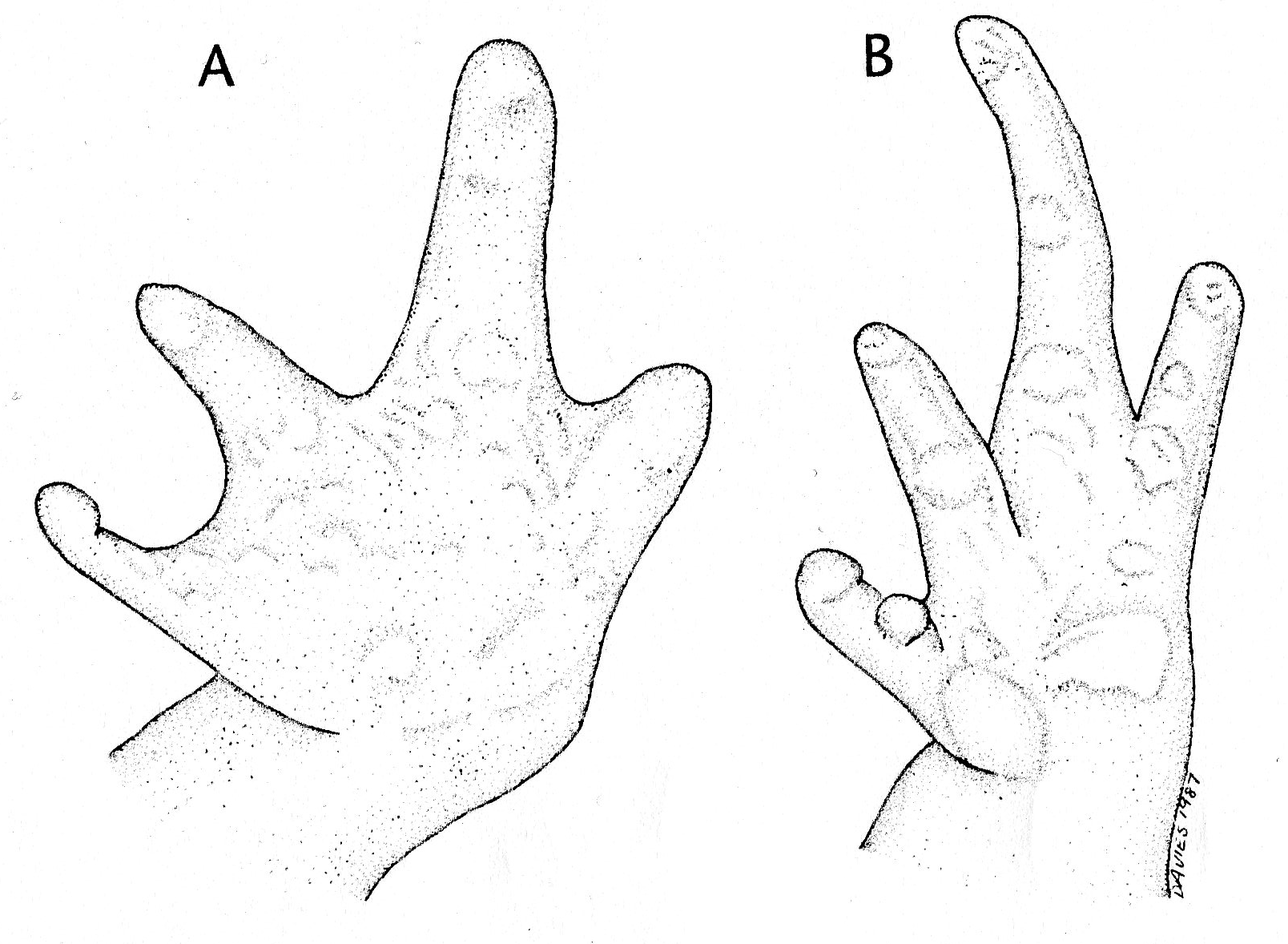 Comparison of burrowing and non-burrowing frog hands: A. Arenohryne rotunda and Crinia deserticola